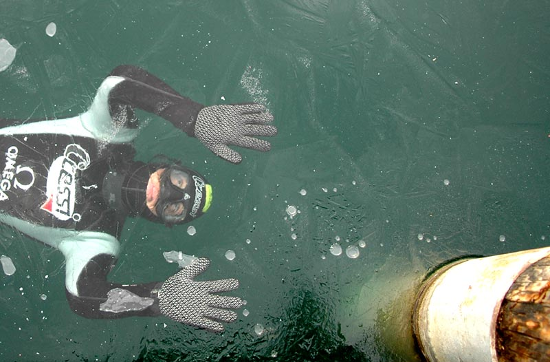 Iceman Christian Redl freediving under ice